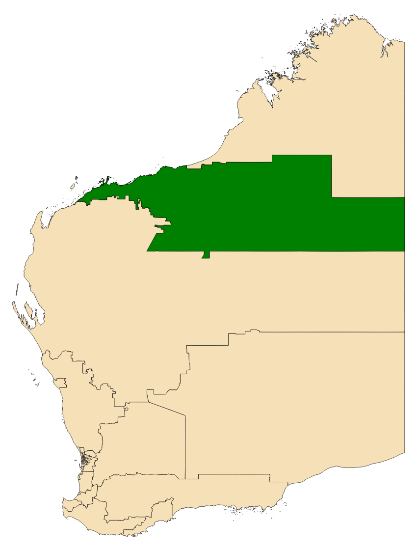 Location of the electoral district of Pilbara in Western Australia as of the 2017 WA state election.